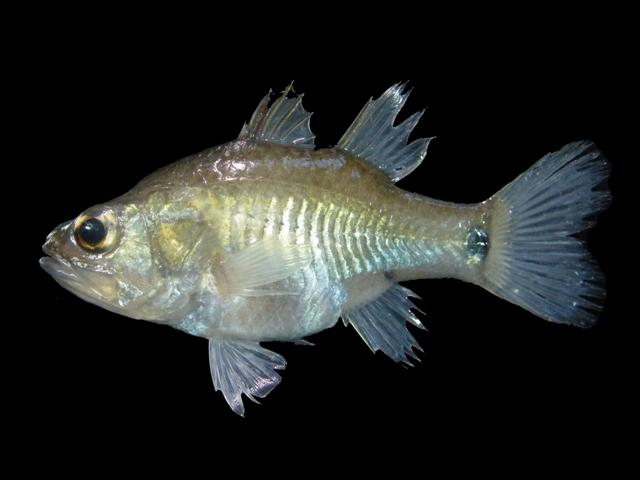 Thailand, Kampuan mangrove forest at Amphoe Suksamran, Ranong province, southern Thailand, 2010, 100.25mmSL